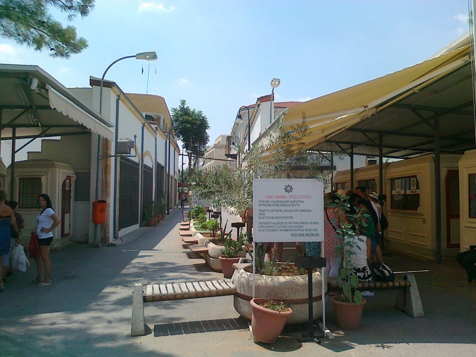 The border between the Turkish Republic of Northern Cyprus and the Republic of Cyprus, taken on 30th July 2012.